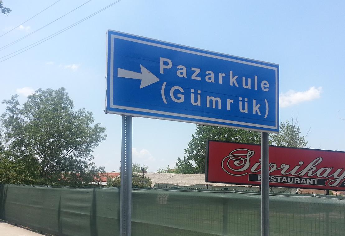 The signboard of Pazarkule Bordergate in Edirne.